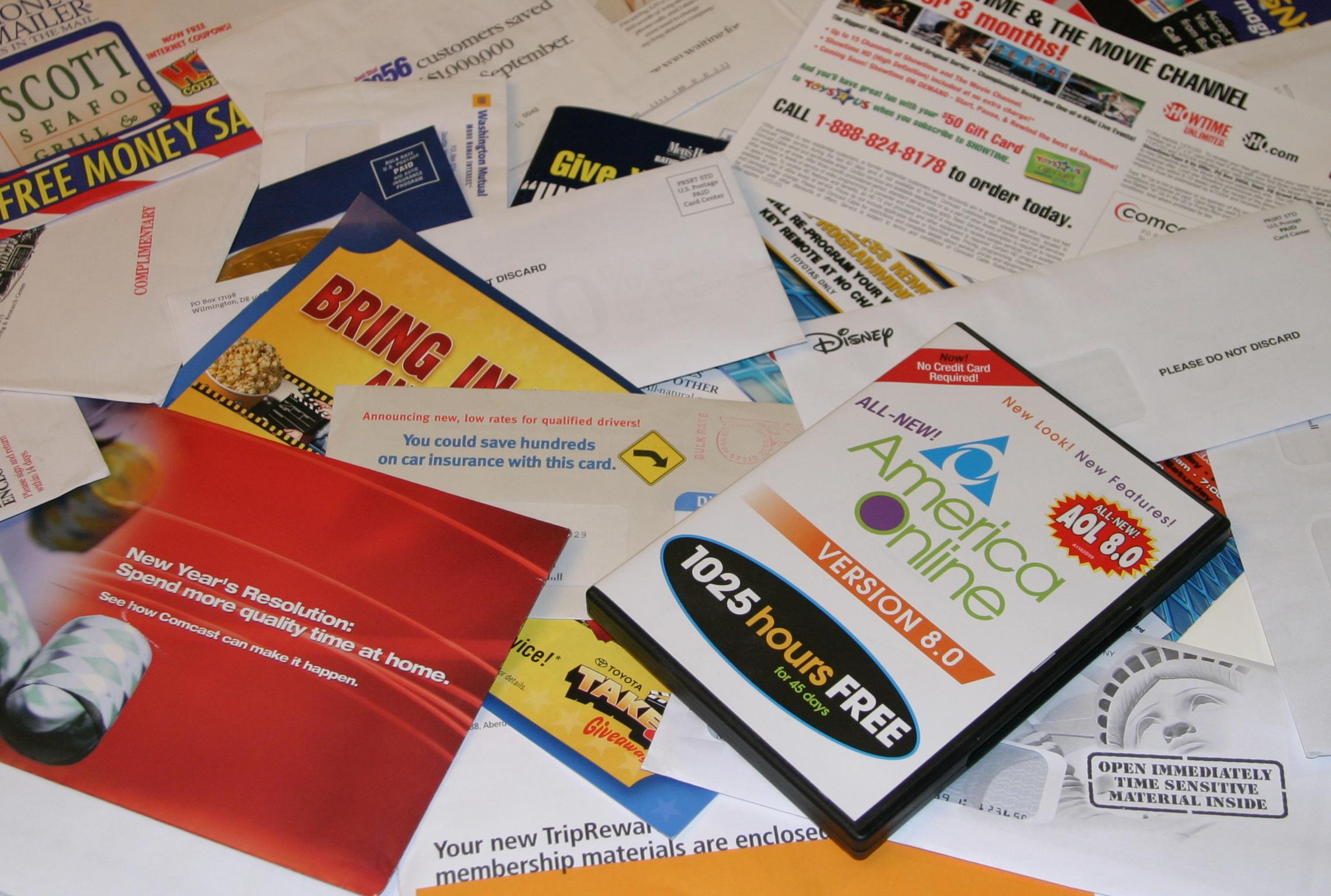 Collection of junk mail.